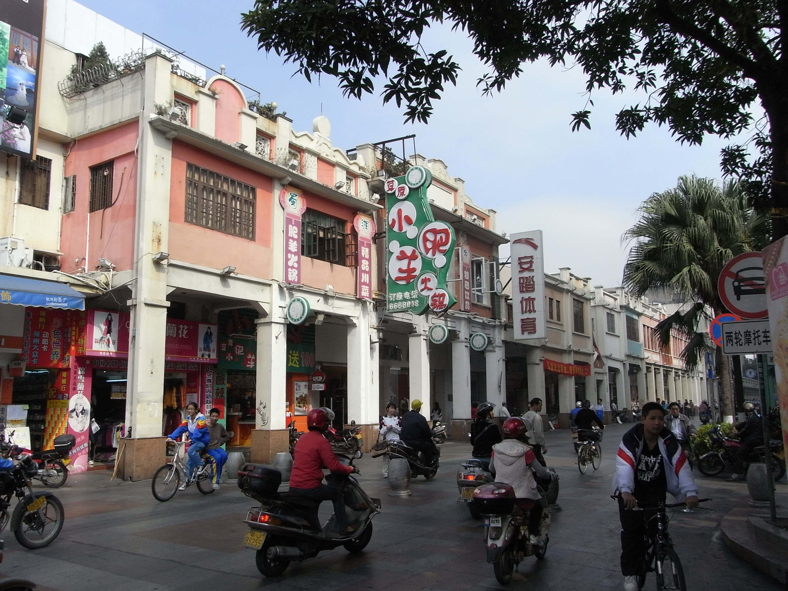 新會會城 仁壽路